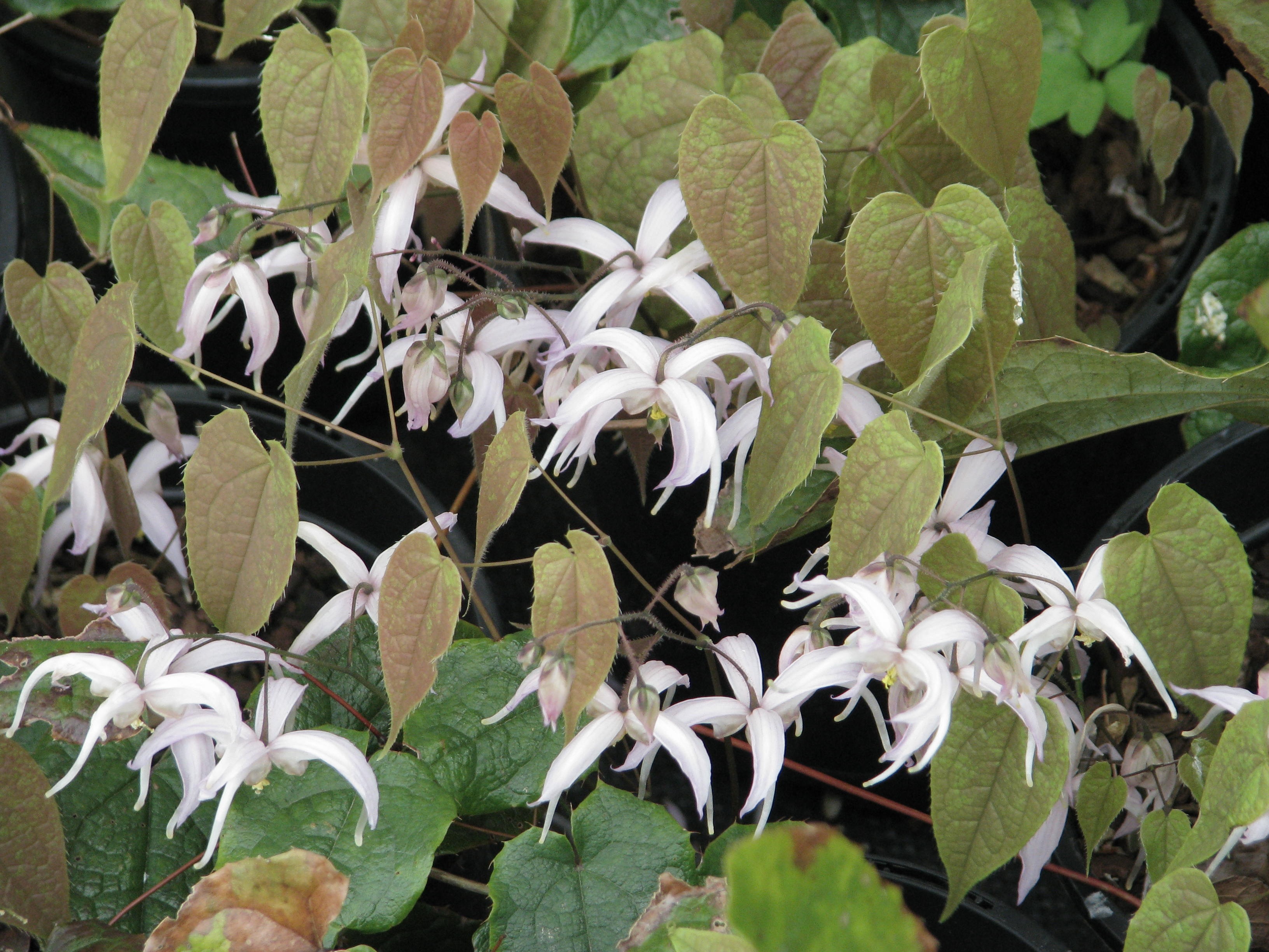 Epimedium leptorrhizum